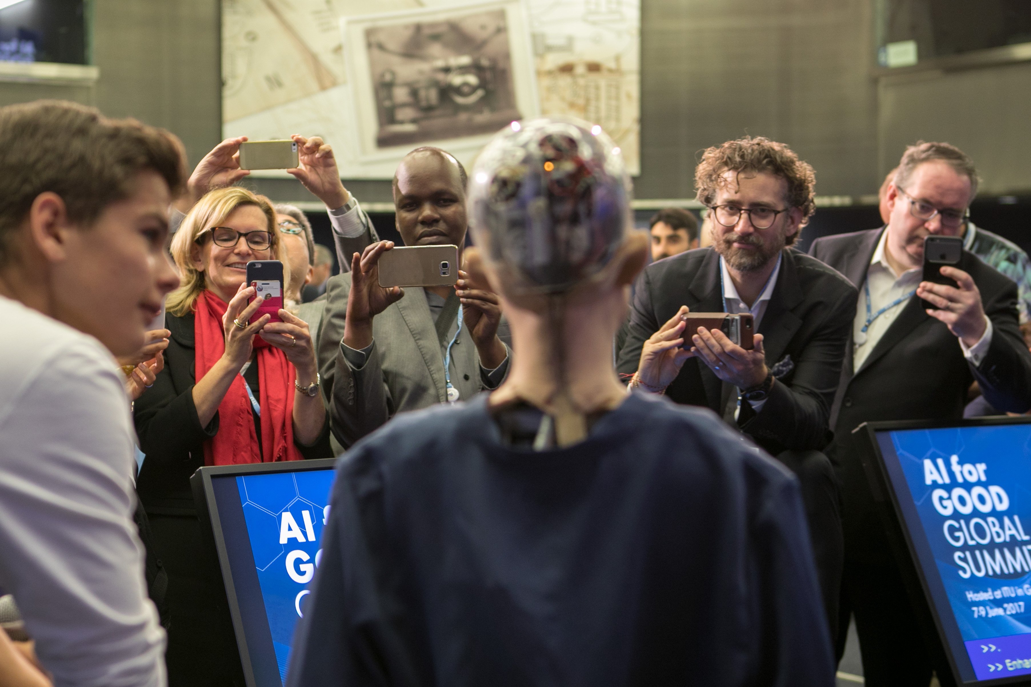 Sophia, Hanson Robotics Ltd. speaking at the AI for GOOD Global Summit, ITU, Geneva, Switzerland, 7 - 9 June, 2017. © ITU/R.Farrell